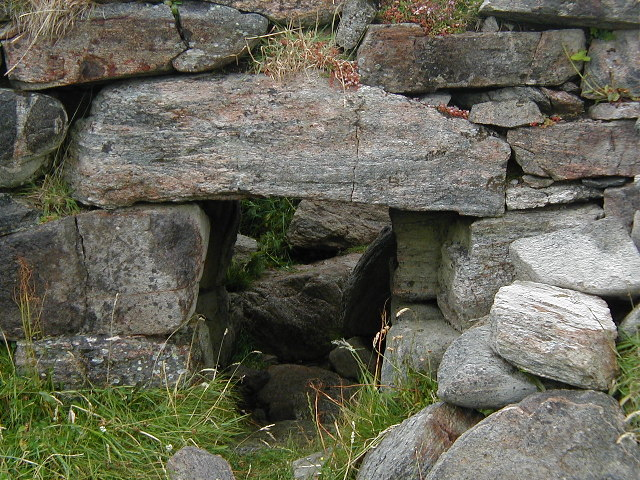 Broch,near Vaul, Tiree. Entrance to the Broch, Dun Mor, near Vaul, Tiree